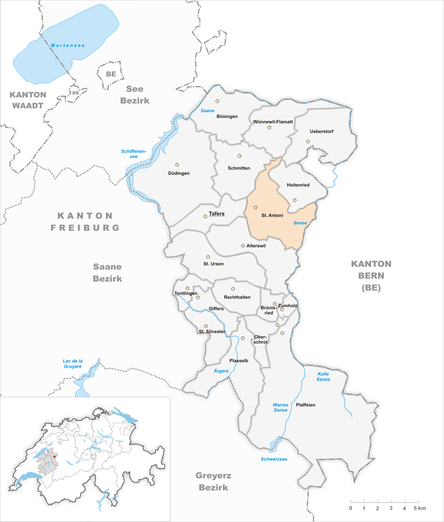 Municipality St. Antoni